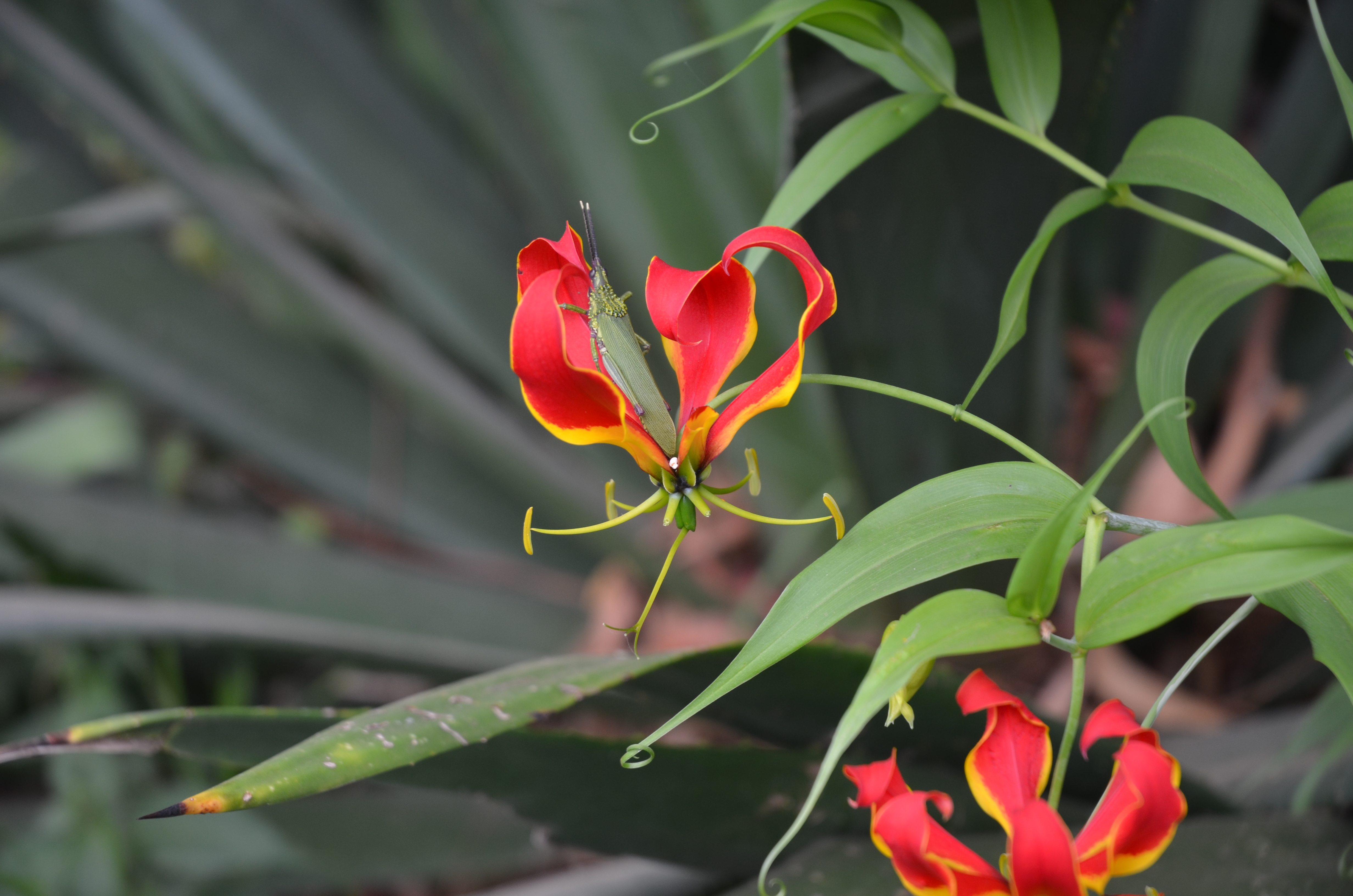 Picture taken in Kitulo National Park.